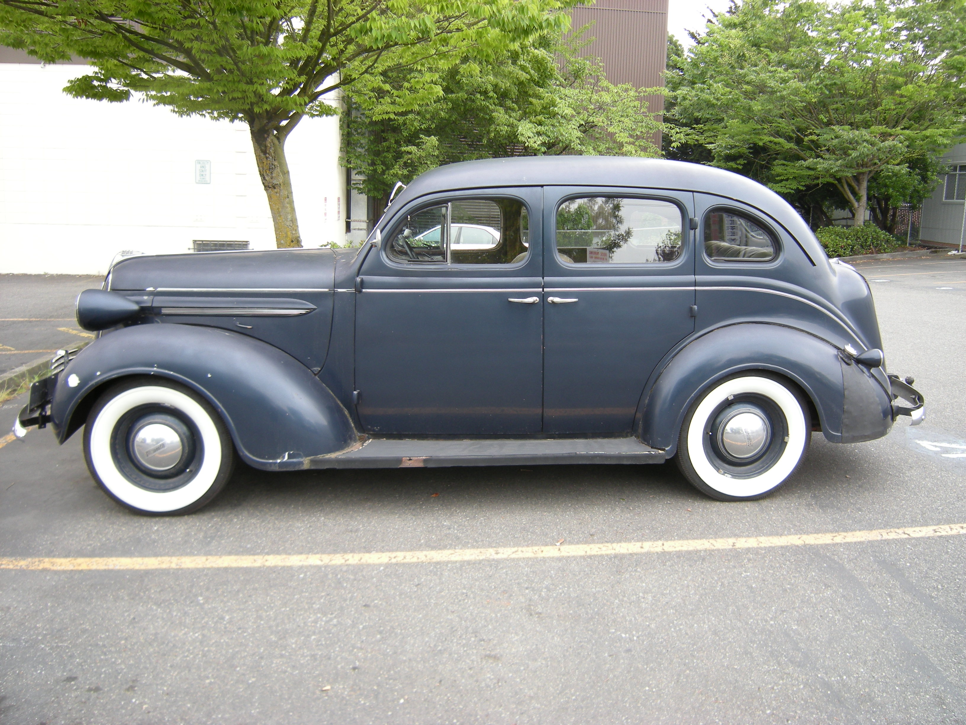 1937 Plymouth photographed in Seattle, Washington.